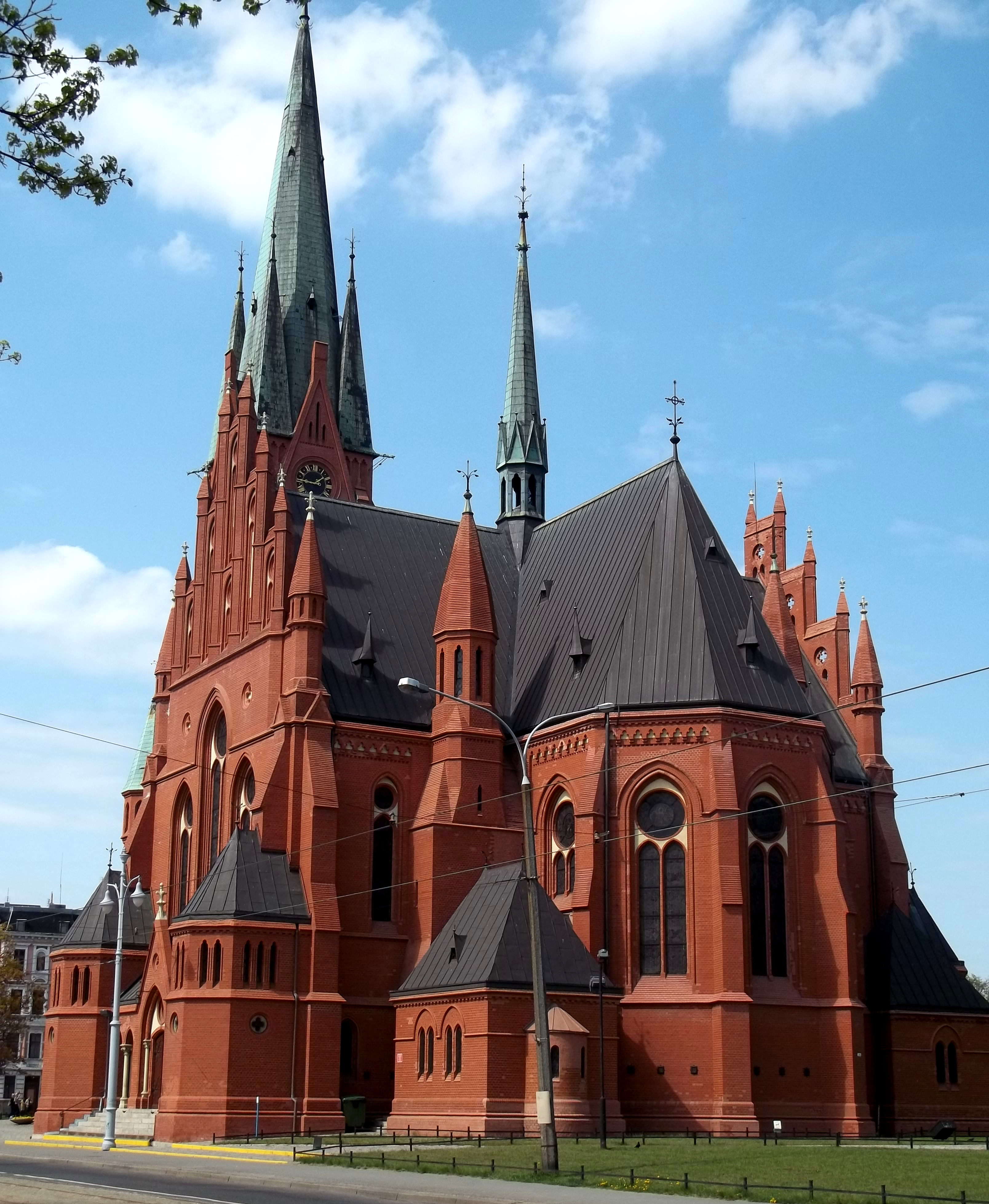 Saint Catherine of Alexandria church in Toruń